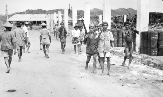 BRUNEI, NORTH BORNEO. 17 JUNE 1945. NATIVE DYAKS FROM THE MAINLAND OF BORNEO, WALKING ALONG A BRUNEI STREET, ARMED WITH JAPANESE RIFLES. THEY ARE ON THEIR WAY BACK TO THEIR VILLAGES IN THE HILLS.